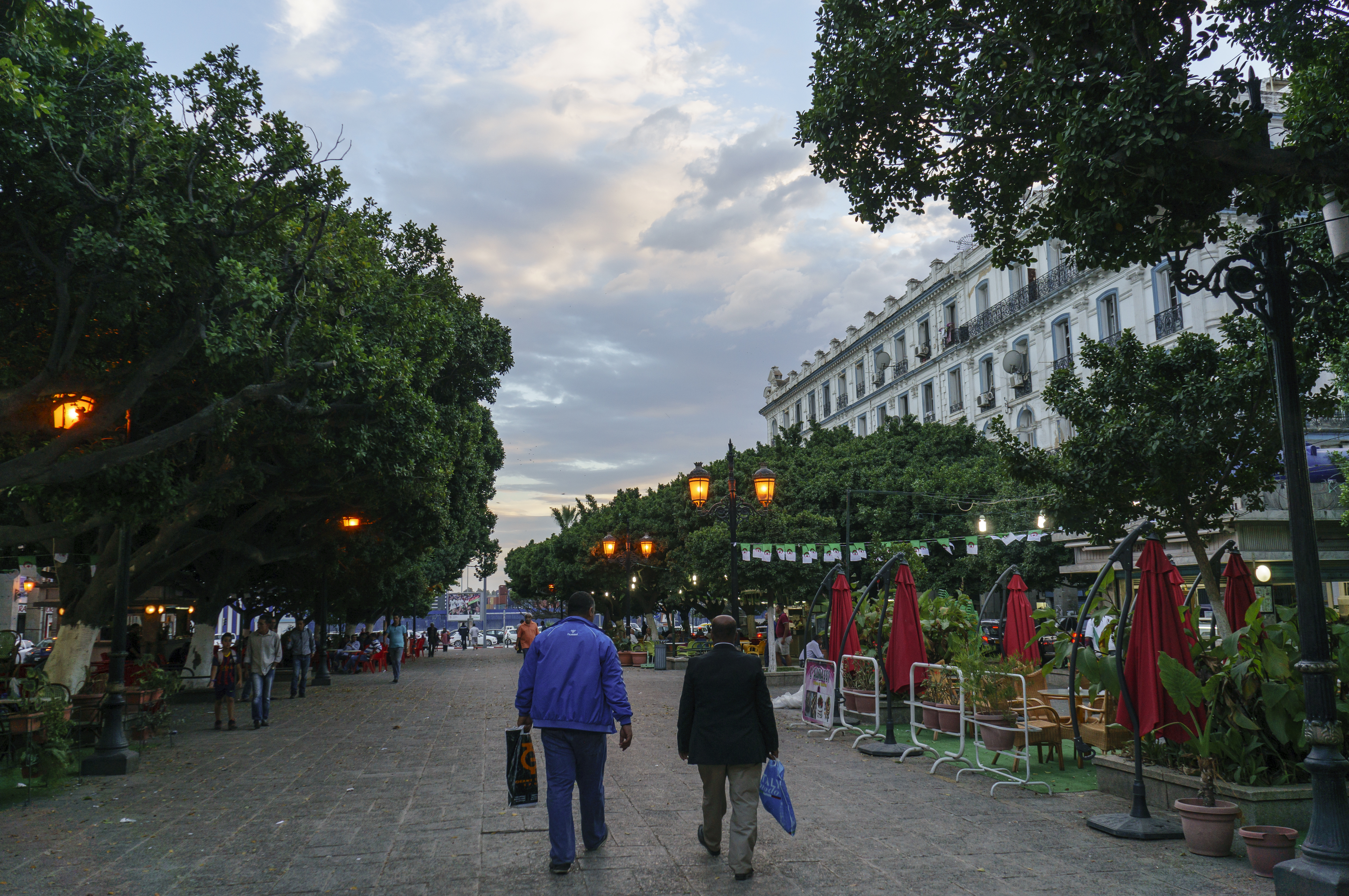 Cours de la Révolution